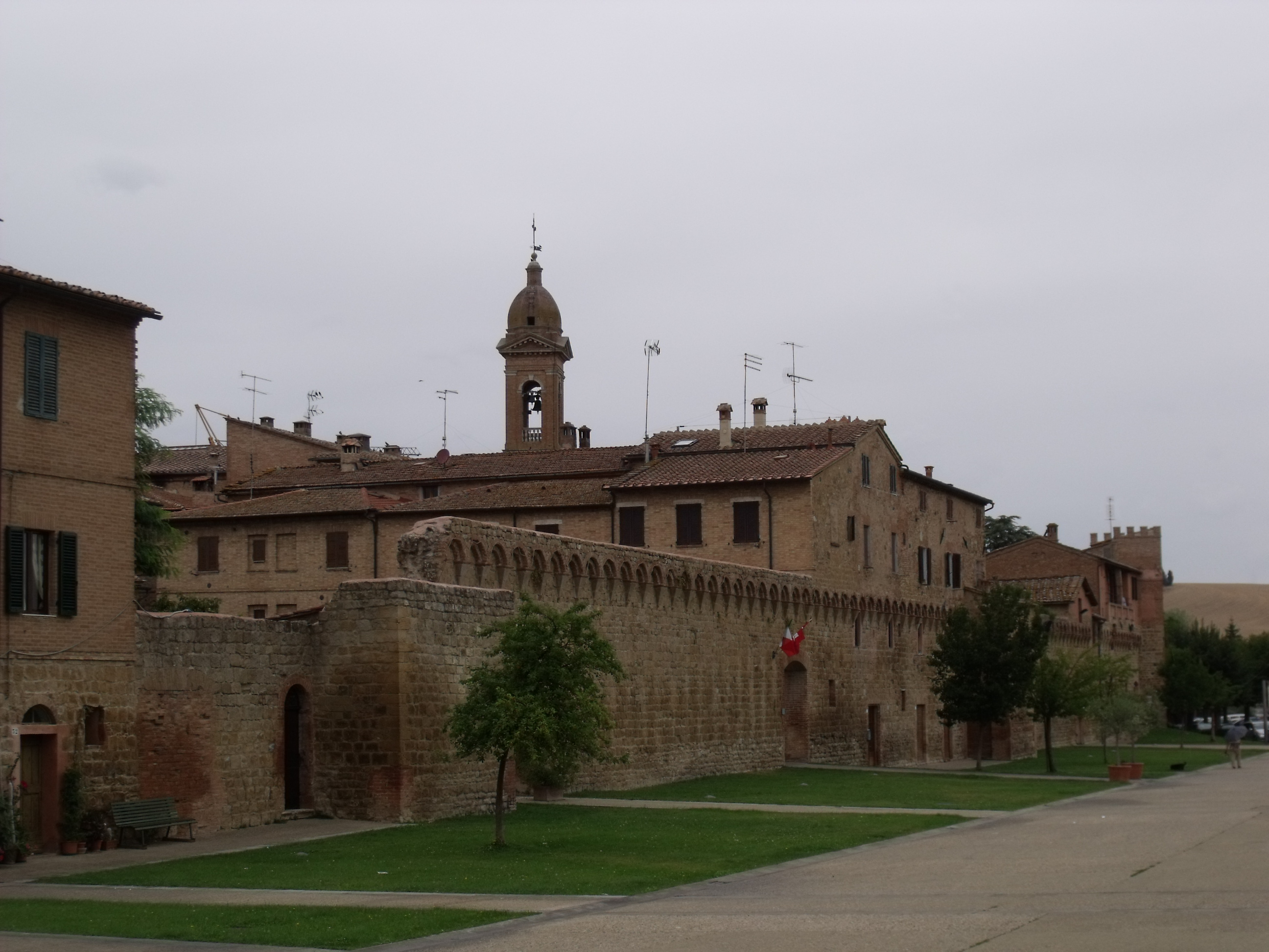 Panorama of Buonconvento, Province of Siena, Tuscany, Italy